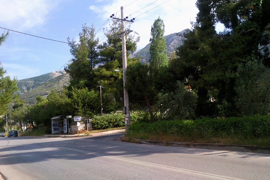 Dionysos avenue at Dionysios of Attica.